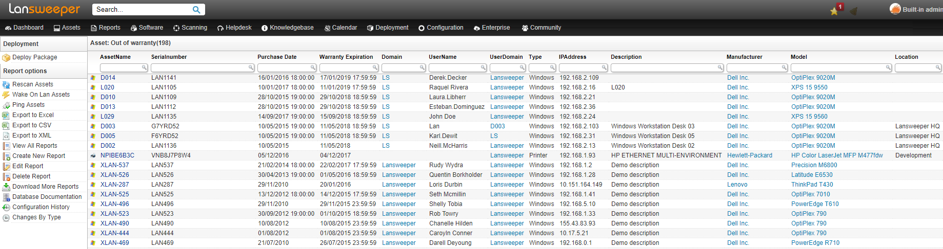 Out of warranty report Lansweeper 7.1.50